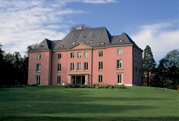 The Villa Barton campus of the Graduate Institute of International and Development Studies (Geneva).